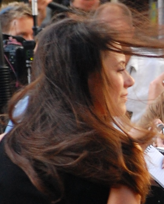 English actress Kate Magowan at The Dark Knight European Premiere.